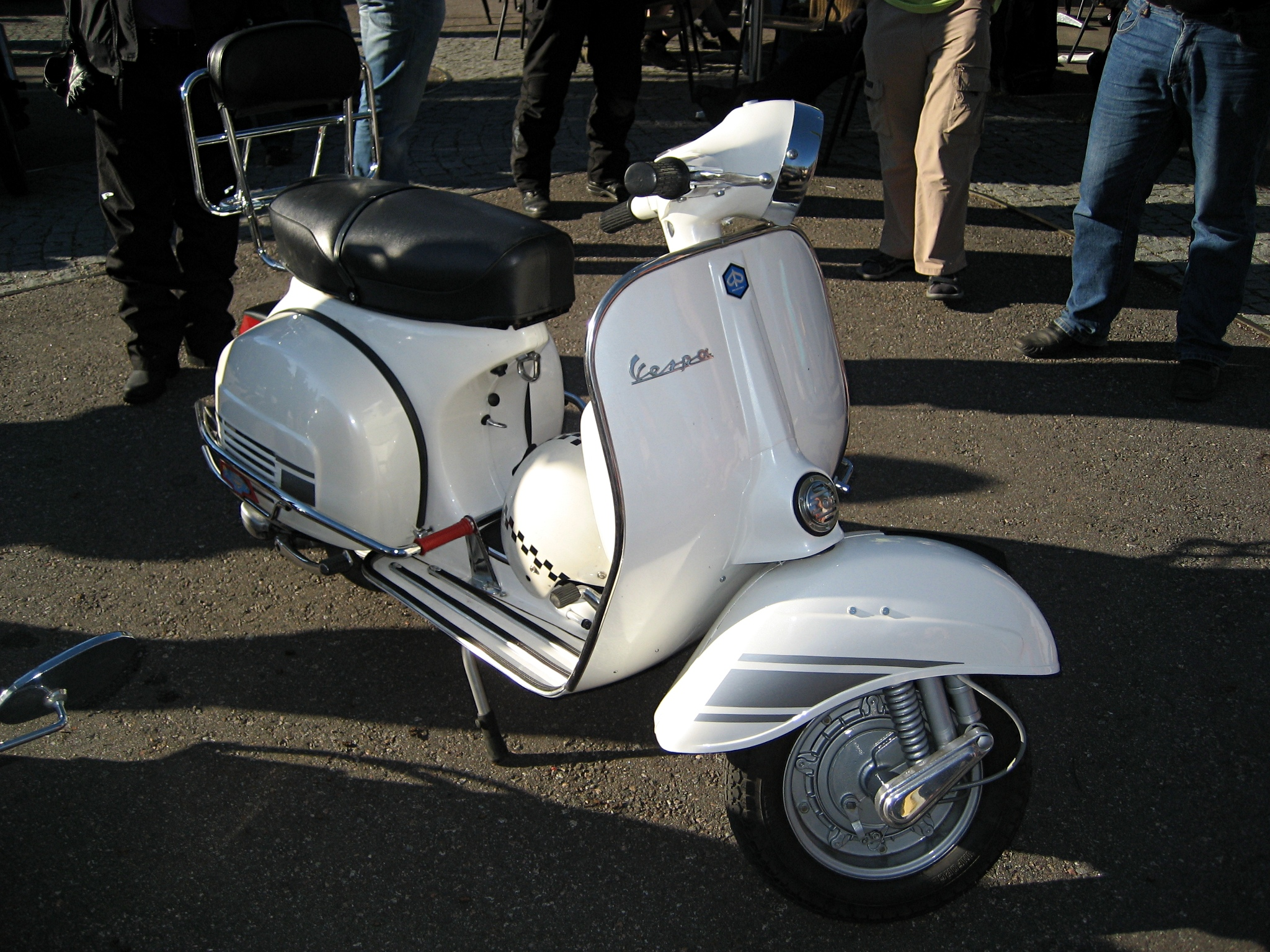 Piaggio Vespa Rally 200 Electronic (1974). "Electronic" stands for electronic ignition (without contact breakers), as Rally was the first Vespa model to use this technology. Note: the front leg shield logo font is different from the original.